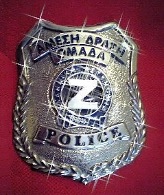 Thiw the second badge in the history of Zita Team created from metal.